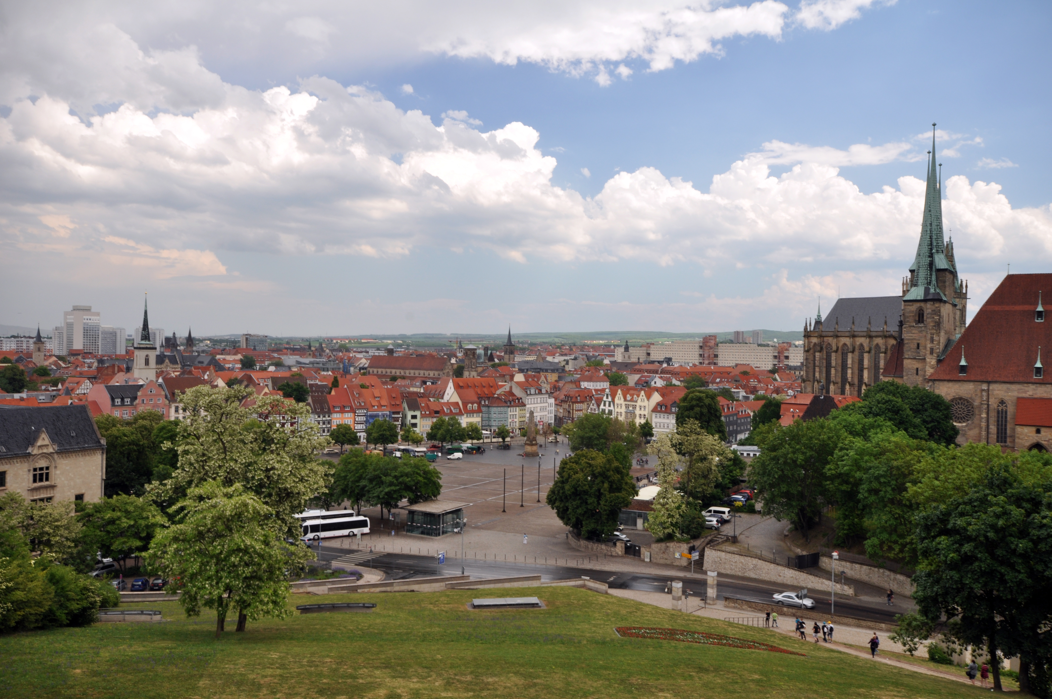 Erfurt (Panoramic view from Petersberg castle over Domplatz with Dom and Severi)